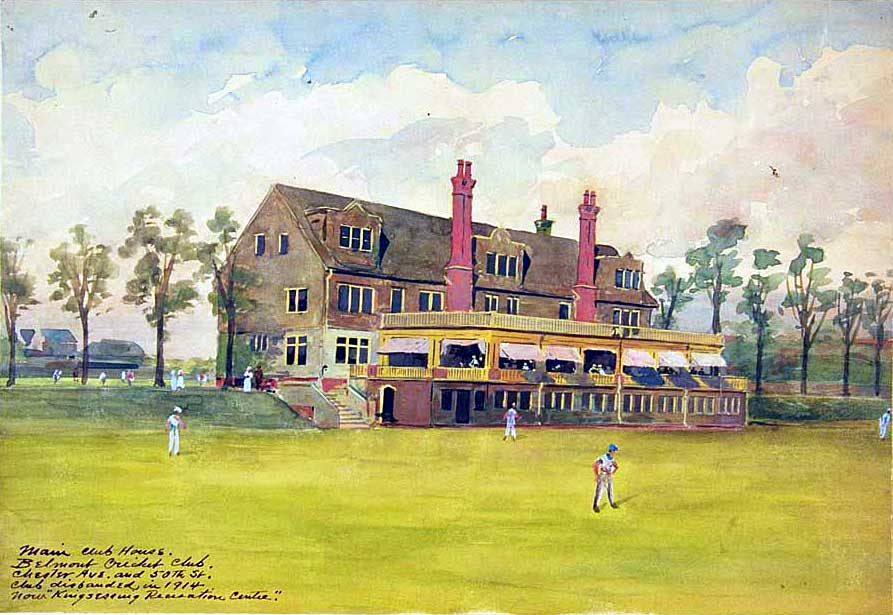 A watercolor painting of the main clubhouse of the Belmont Cricket Club. It was located at Chester Avenue and 50th Street in west Philadelphia. The club was disbanded in 1914.